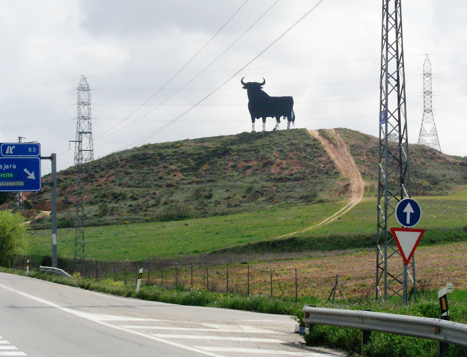 Osborne Bull at Guadalajara, Spain. South road entrance.